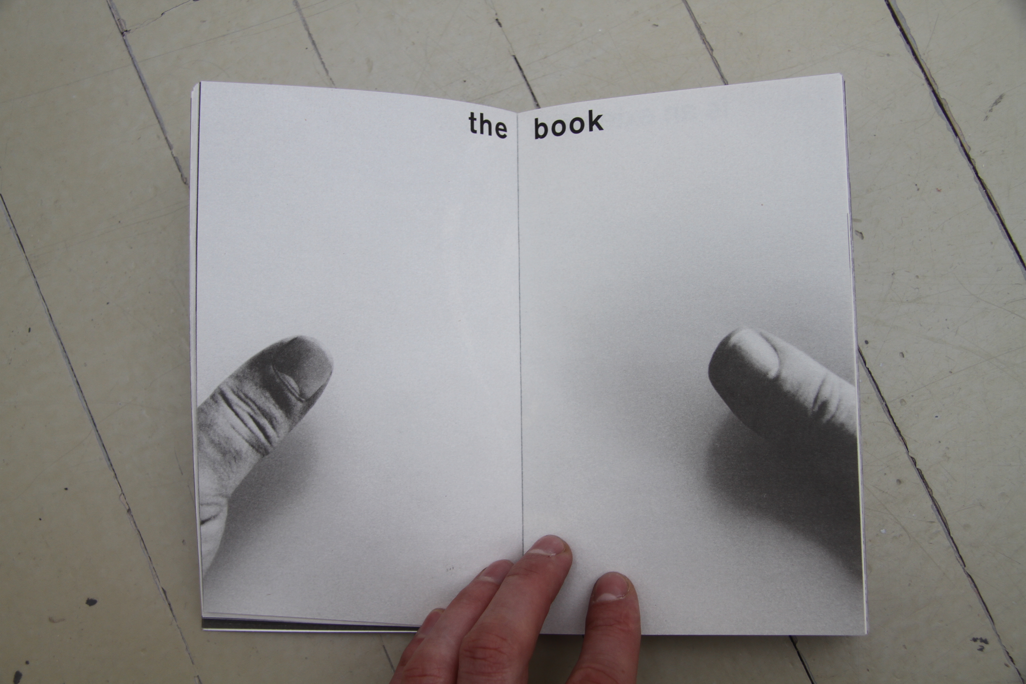 Marshall McLuhan, Quentin Fiore: The Medium is the Massage (Spread from the book, page 34-35, original photo: Peter Moore) Published in 2001 by Ginko Press Inc., Corte Madera, CA, USA. ISBN: 1-58423-070-3